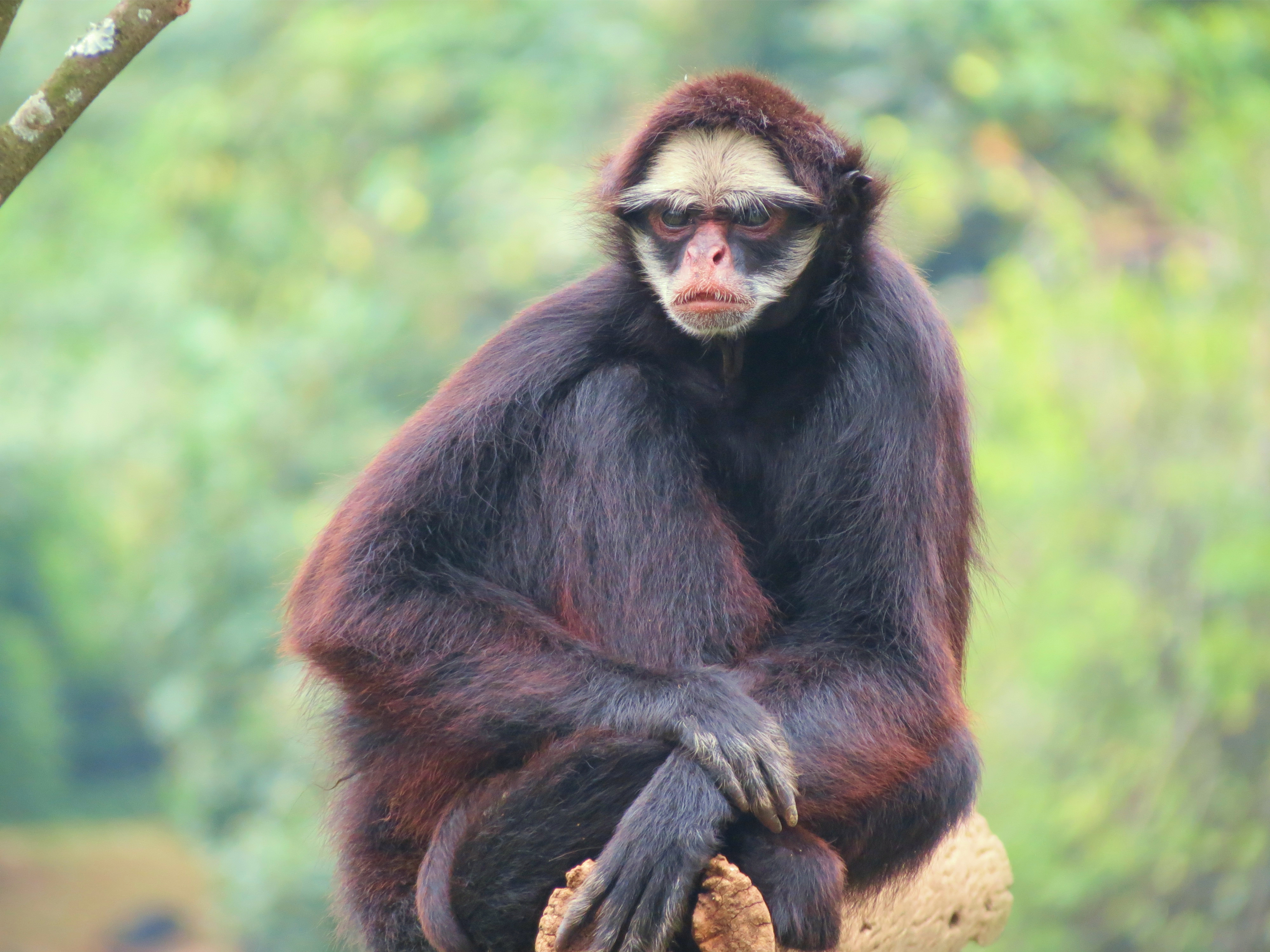 Spider monkey (Ateles marginatus) in São Paulo Zoo.